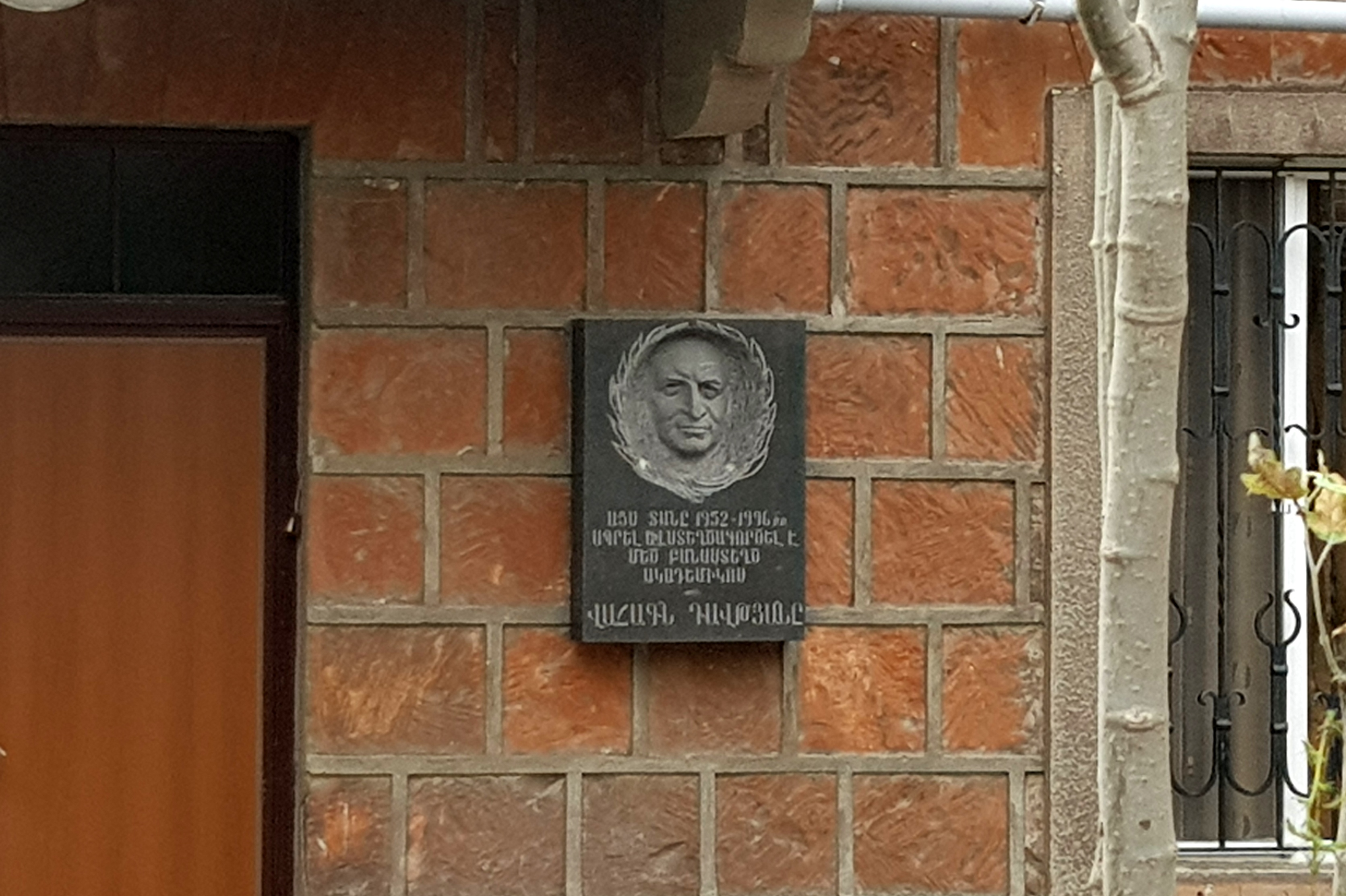 Vahagn Davtyan's Plaque